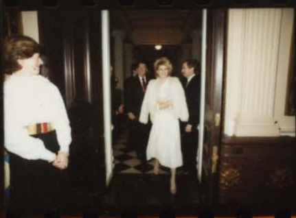 Fawn Hall enters the room at Christmas party for NSC staff in the White House in 1984.